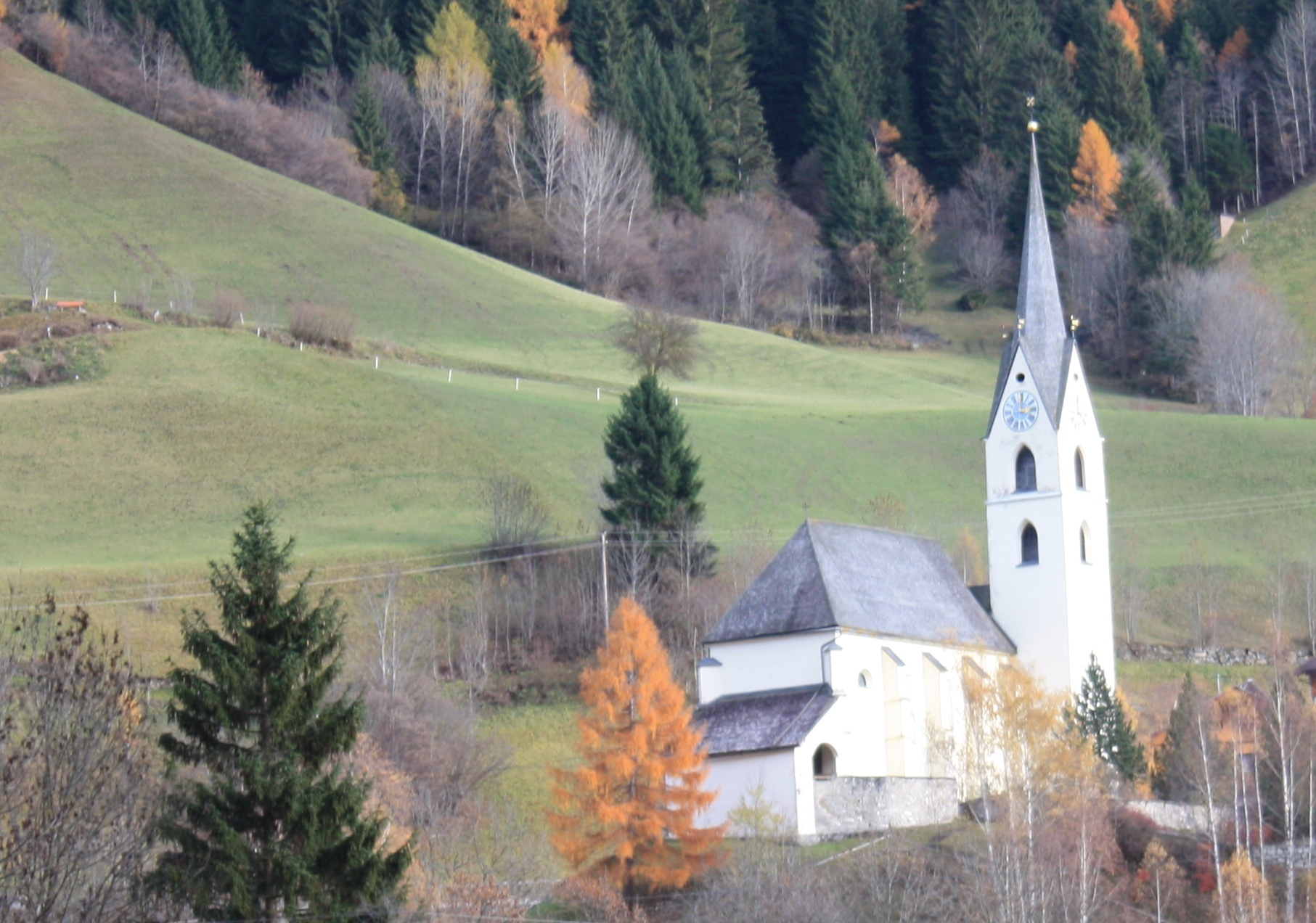 Parish church in Mörtschach